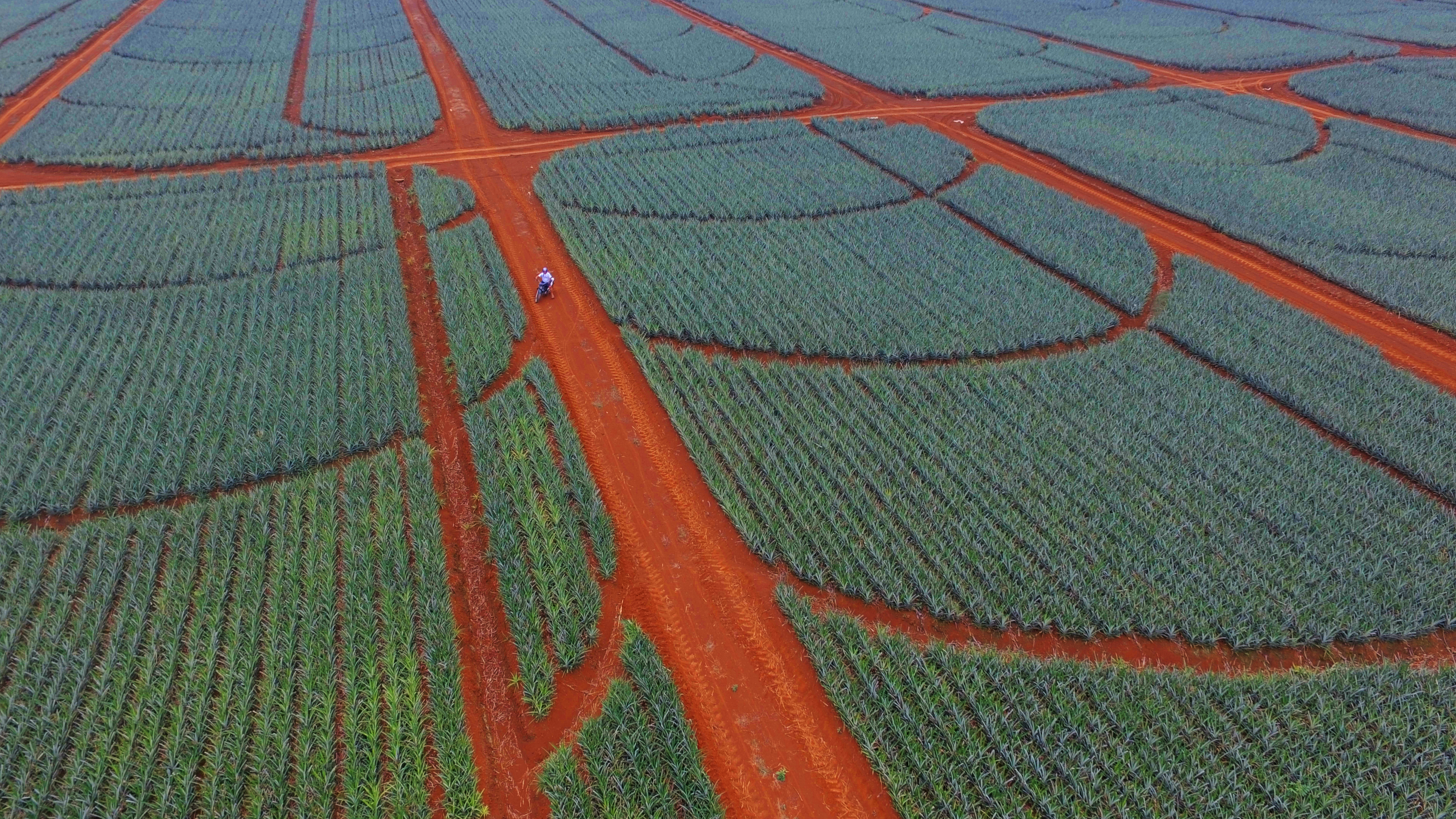 A motorcycle driver surveys the growing pineapples in Manolo Fortich, Bukidnon.